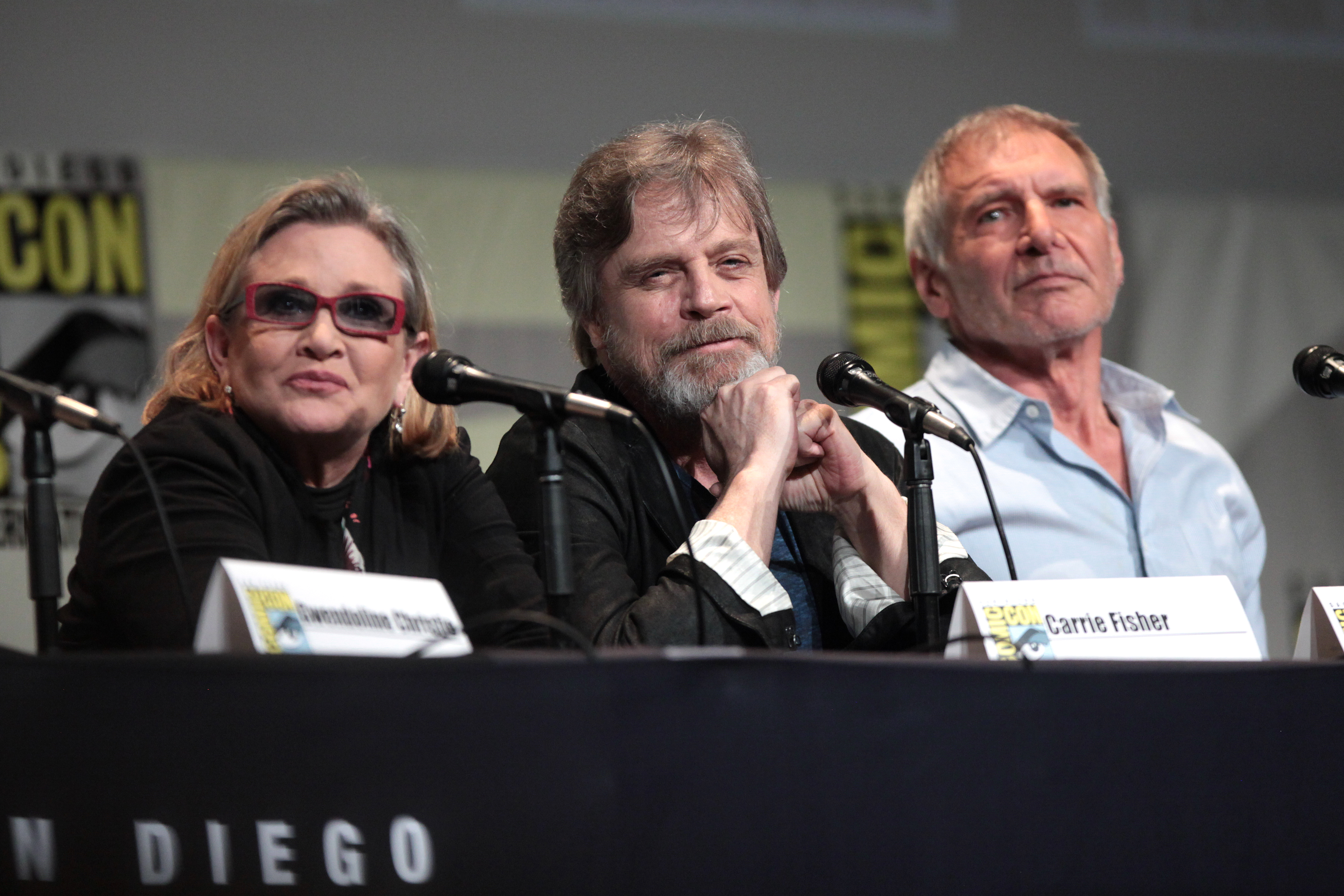 Carrie Fisher, Mark Hamill and Harrison Ford speaking at the 2015 San Diego Comic Con International, for "Star Wars: The Force Awakens", at the San Diego Convention Center in San Diego, California.